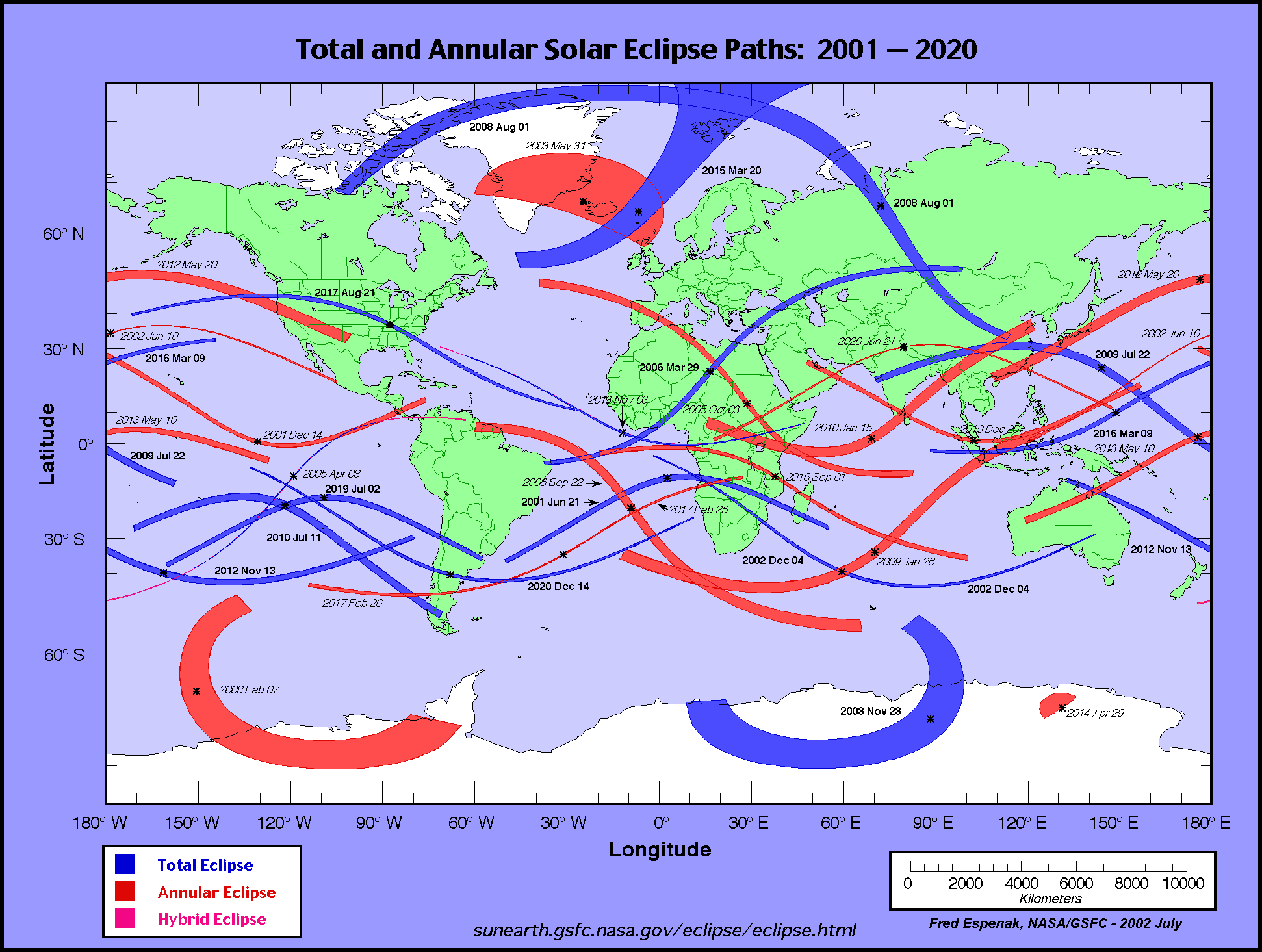 Central eclipse paths for 2001-2020